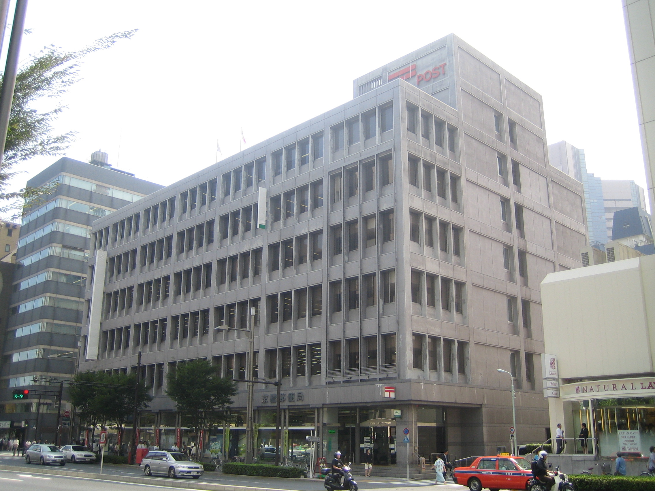 Kyobashi Post Office (京橋郵便局 Kyōbashi Yūbinkyoku), located at Tsukiji, Chuo, Tokyo, Japan